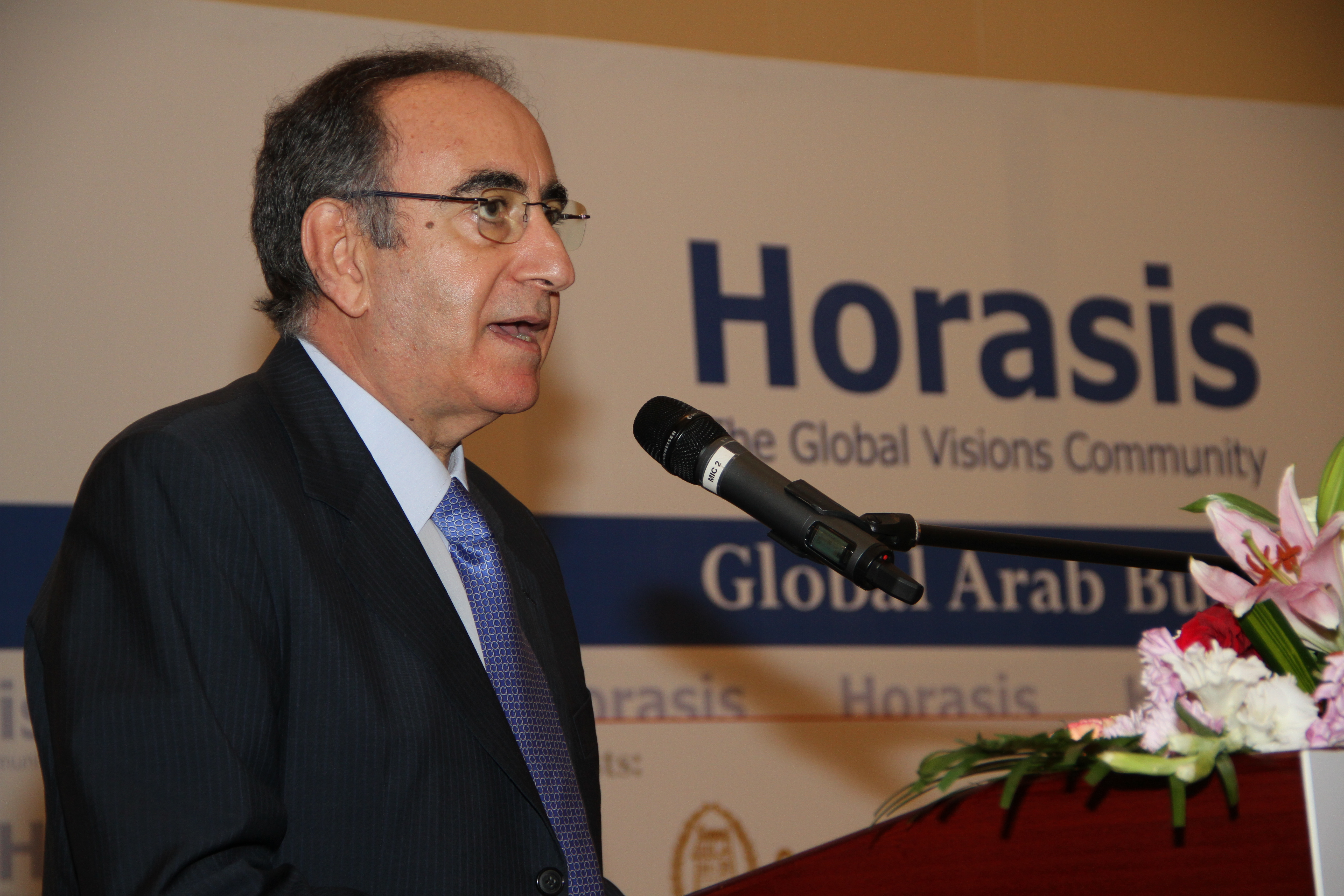 Nicolas Nahas, Minister of Economy & Trade, Lebanon, speaking about the world’s dyslexia, at the 2011 Horasis Global Arab Business Meeting